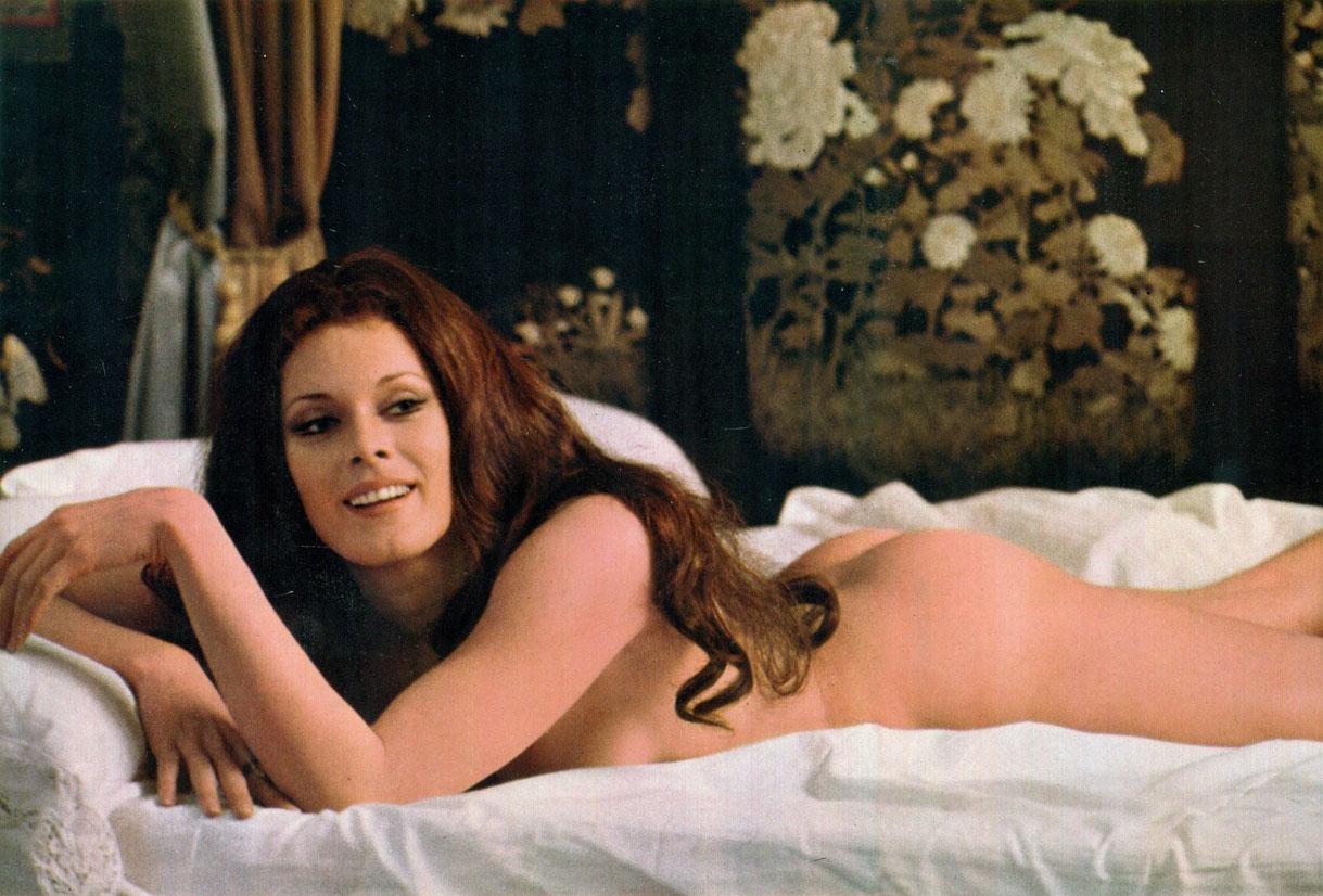 Jamaican-English actress Martine Beswick on the set of the film Il bacio directed by Mario Lanfranchi (1974).